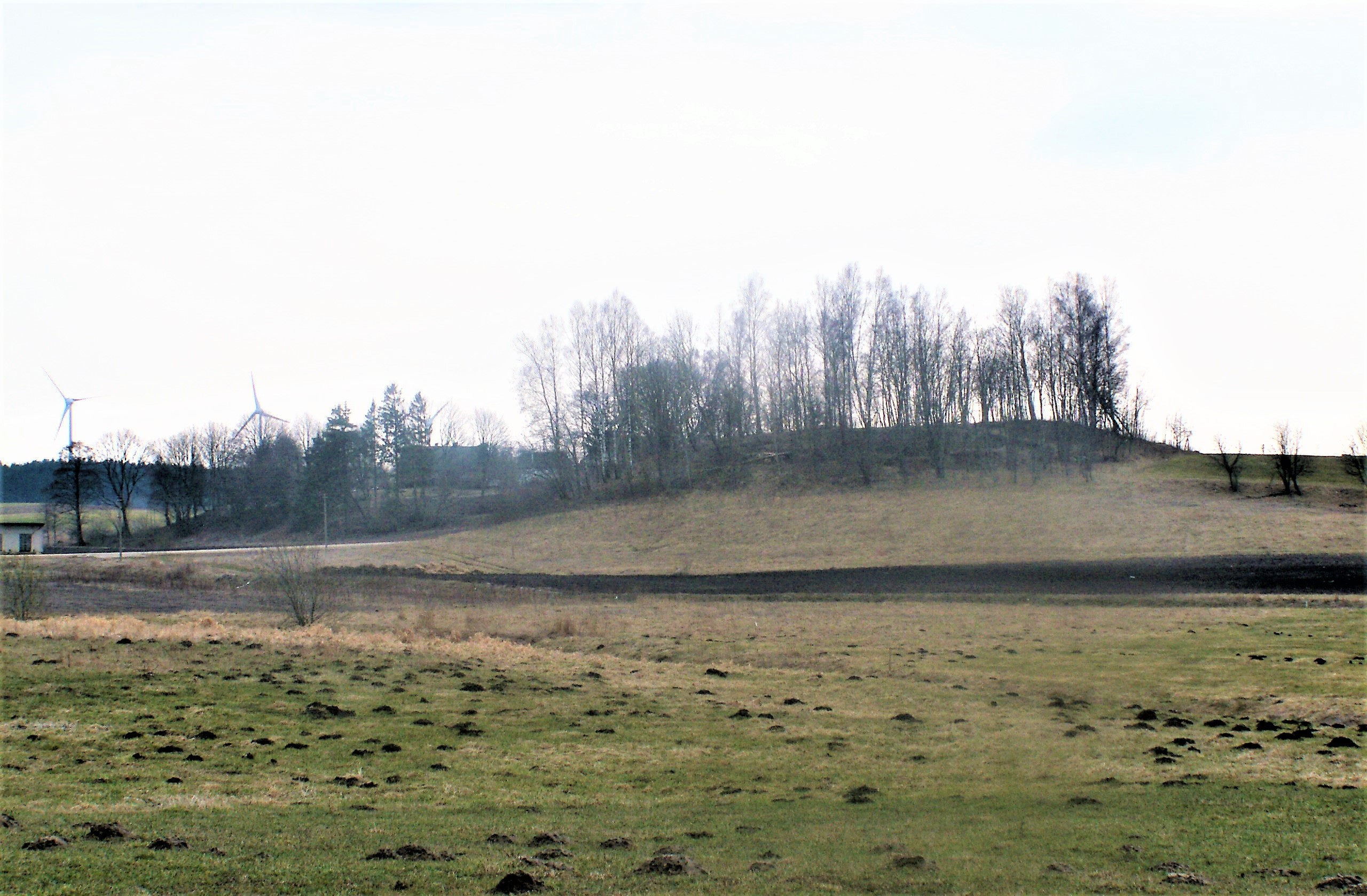 Rūdaičiai hillfort, Kretinga district, Lithuania